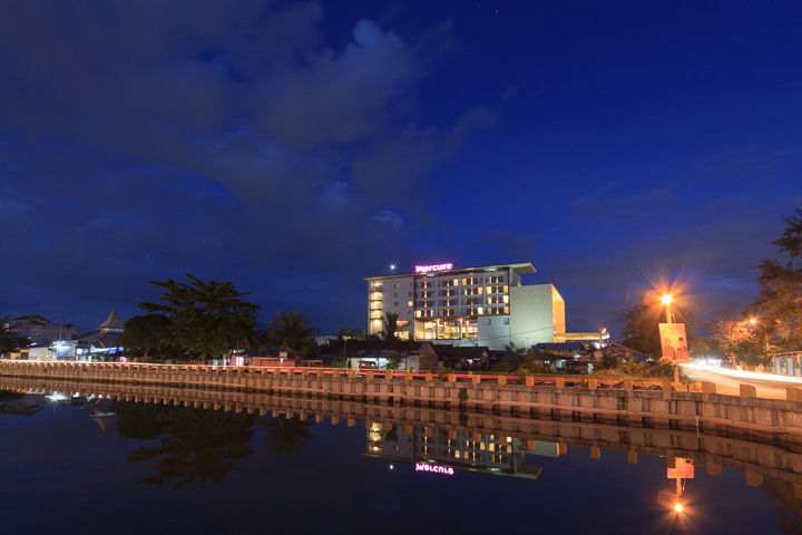 Hotel Mercure, a four-star hotel in Padang, Indonesia.